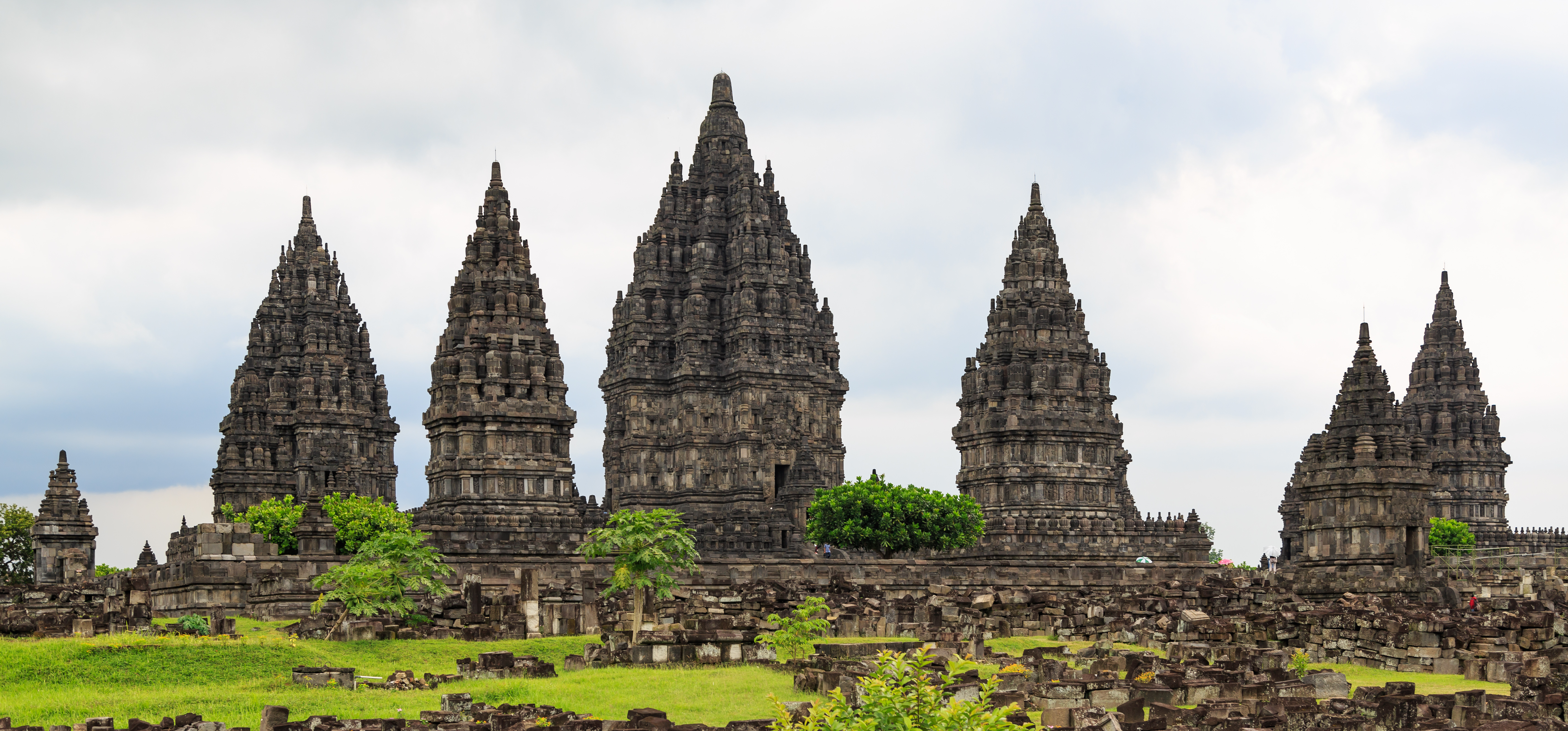 Yogyakarta, Indonesia: Prambanan temple complex.